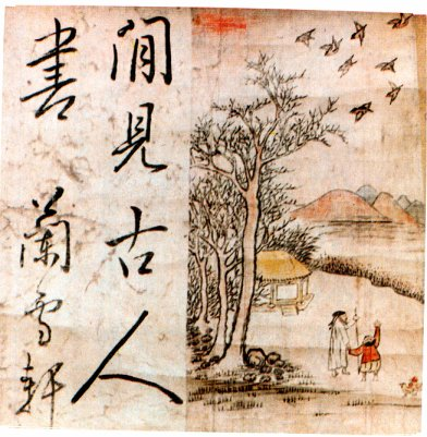 Angganbigeumdo painted by Heo, Nanseolheon